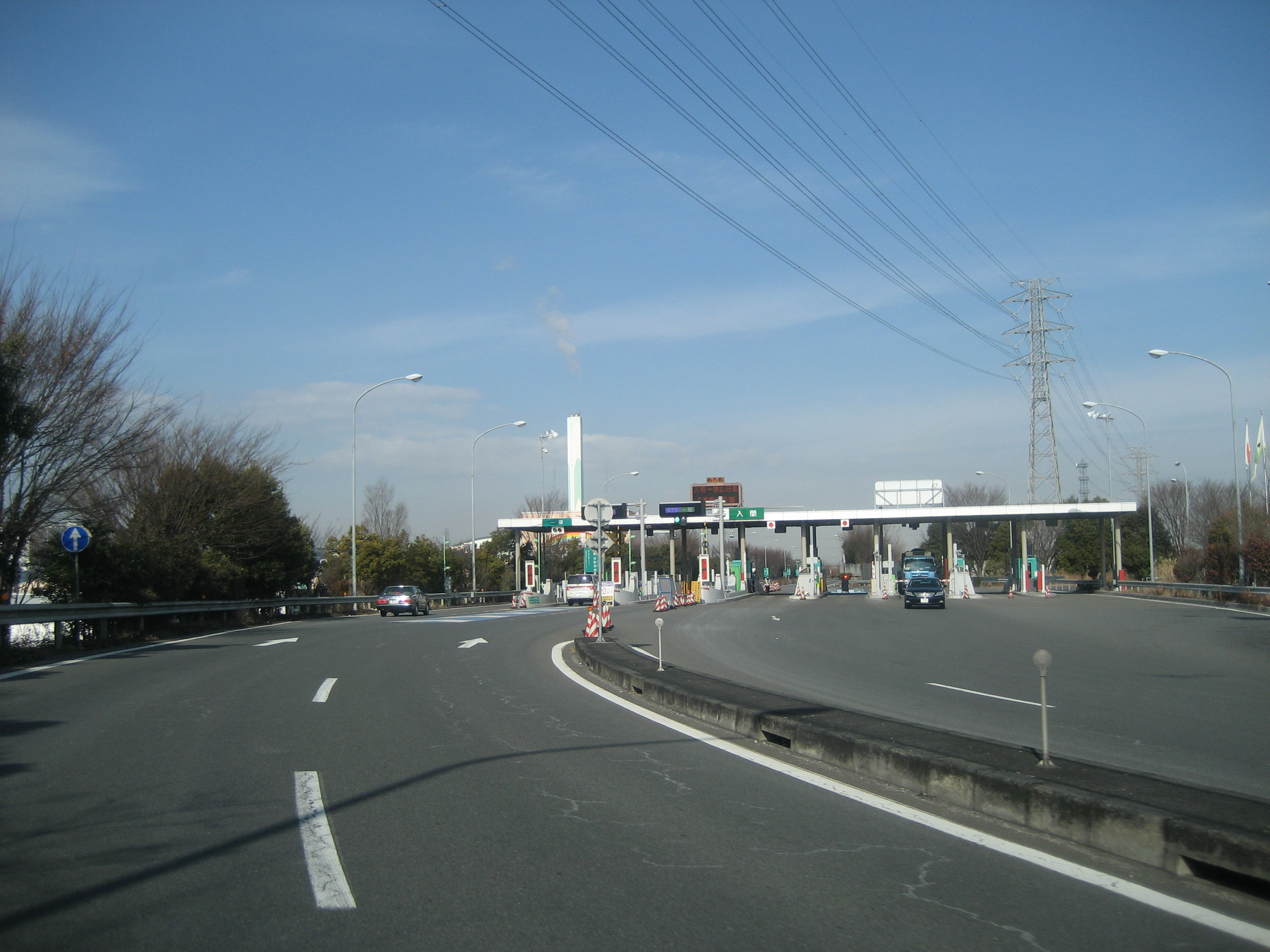 Toll gates at Iruma Interchange on the Ken-o Expressway